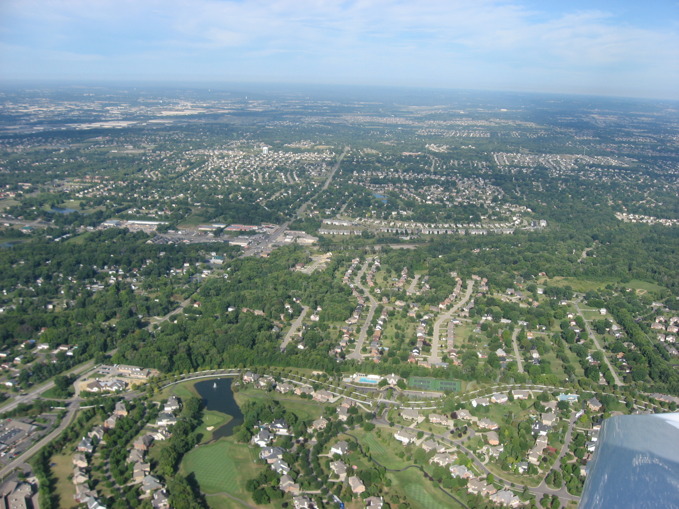 Aerial view of central West Chester Township, Butler County, Ohio, United States. The community of Maud is visible as the cluster of larger buildings around the major intersection near the center of the picture; the intersection is that of Tylersville and Cin-Day Roads. Visible near the bottom of the picture is part of Wetherington Golf and Country Club. Picture taken from a Diamond Eclipse light airplane at an altitude of 2,250 feet MSL and a bearing of approximately 270º.